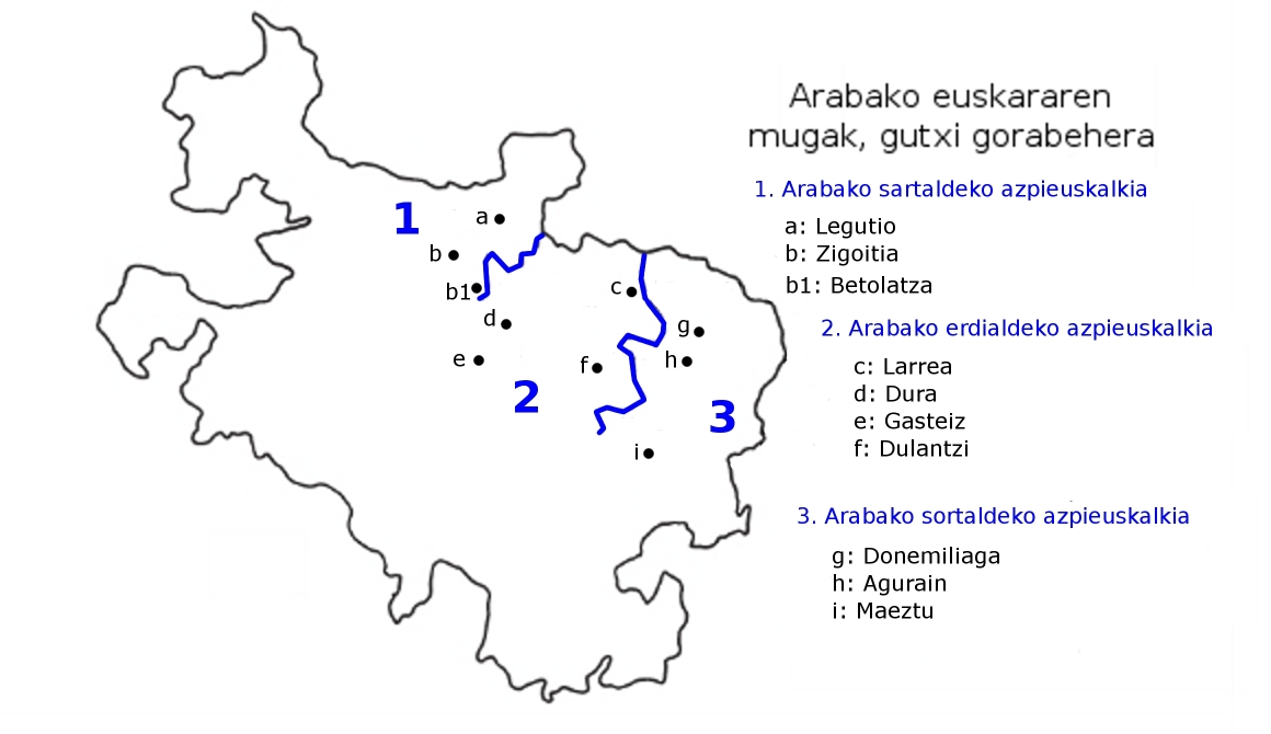 Approximate areas of the Basque-language sub-dialects in Álava-Araba, 16th - 17th centuries, based on toponyms of Álava-Araba and the Basque-language texts written in those centuries by writers from Álava-Araba. Source: Zuazo, Koldo, 1997, «Euskara Araban», Uztaro, no. 21, p. 79-95.